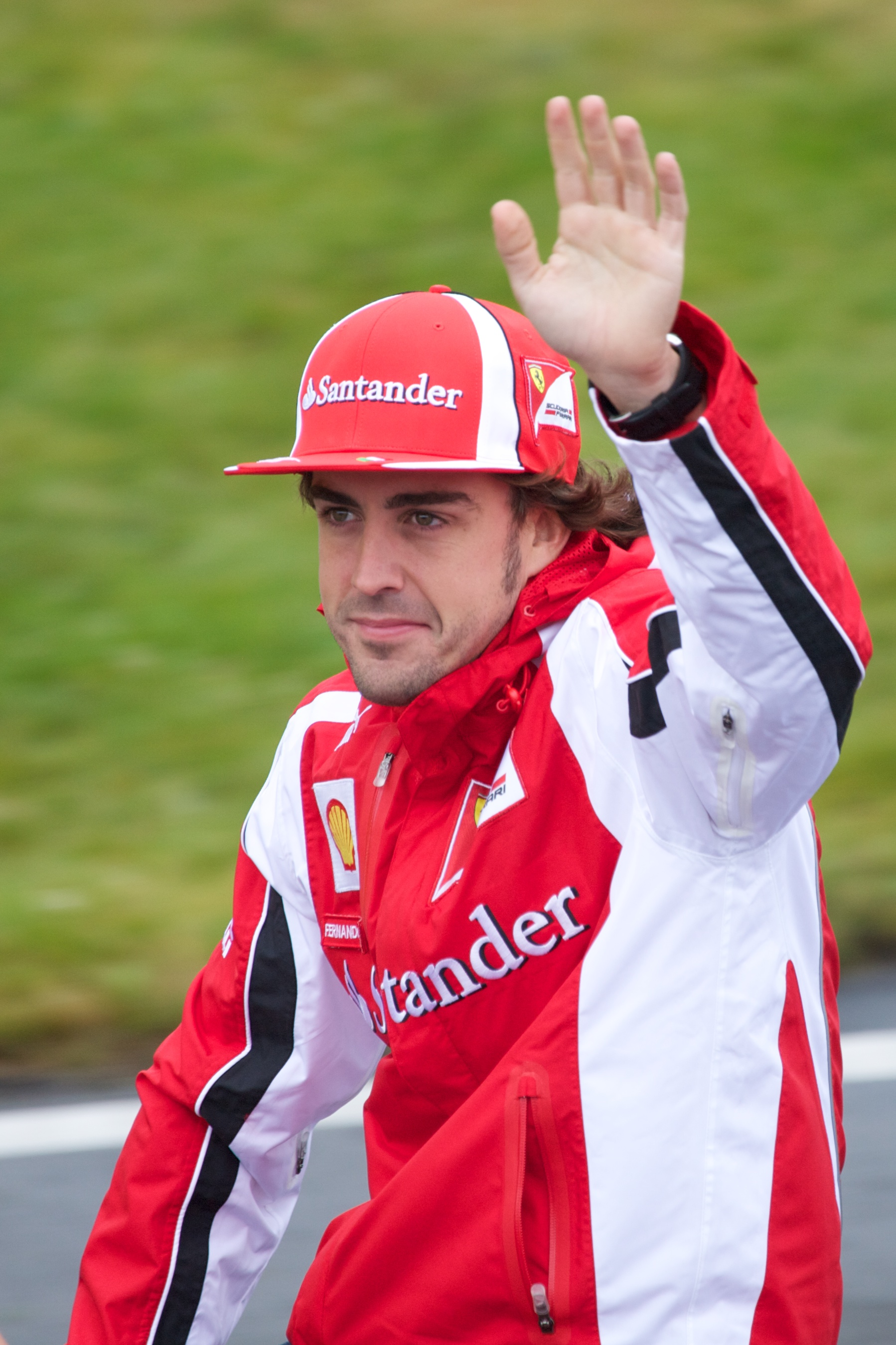 Fernando Alonso at the 2011 Canadian GP